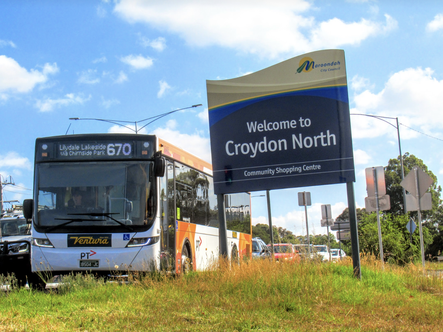 Welcome to Croydon North Sign